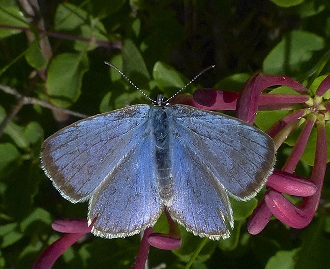 Near Mas de Bondia (Catalonia). May 2013.